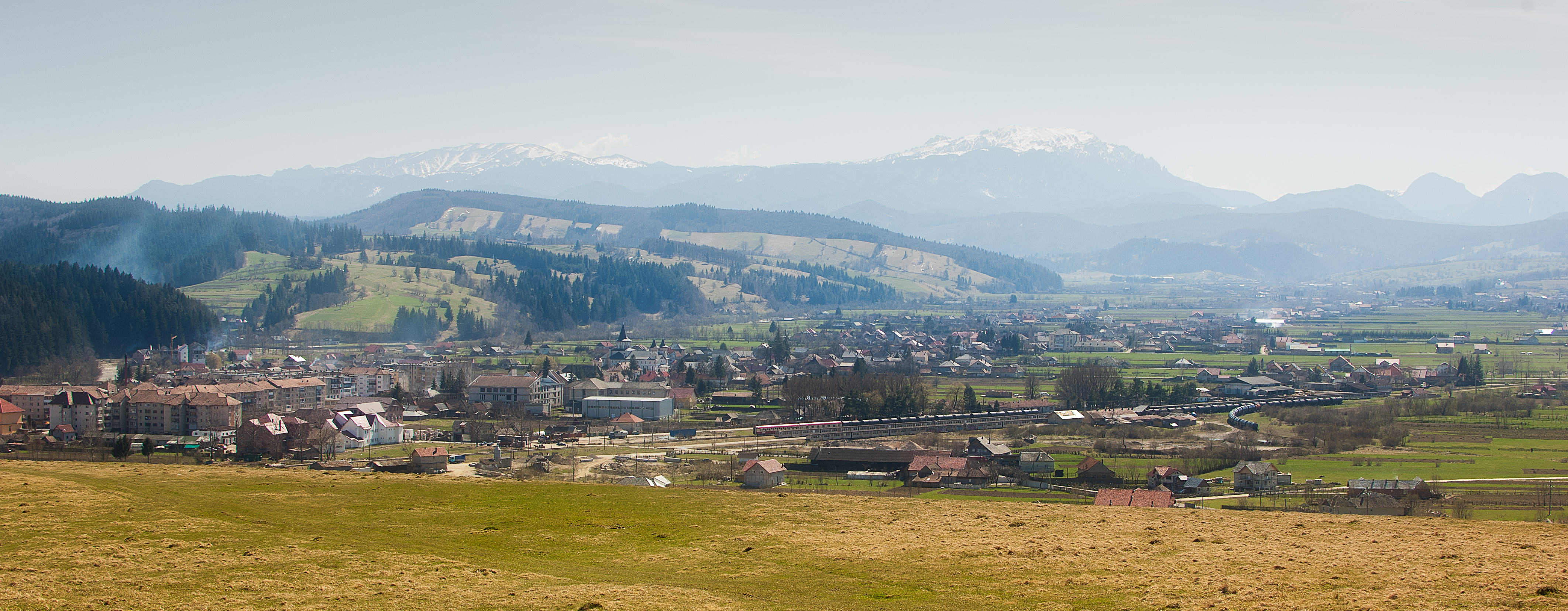 Panorama of the Romanian town Intorsura Buzaului